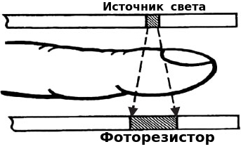 photo sensor